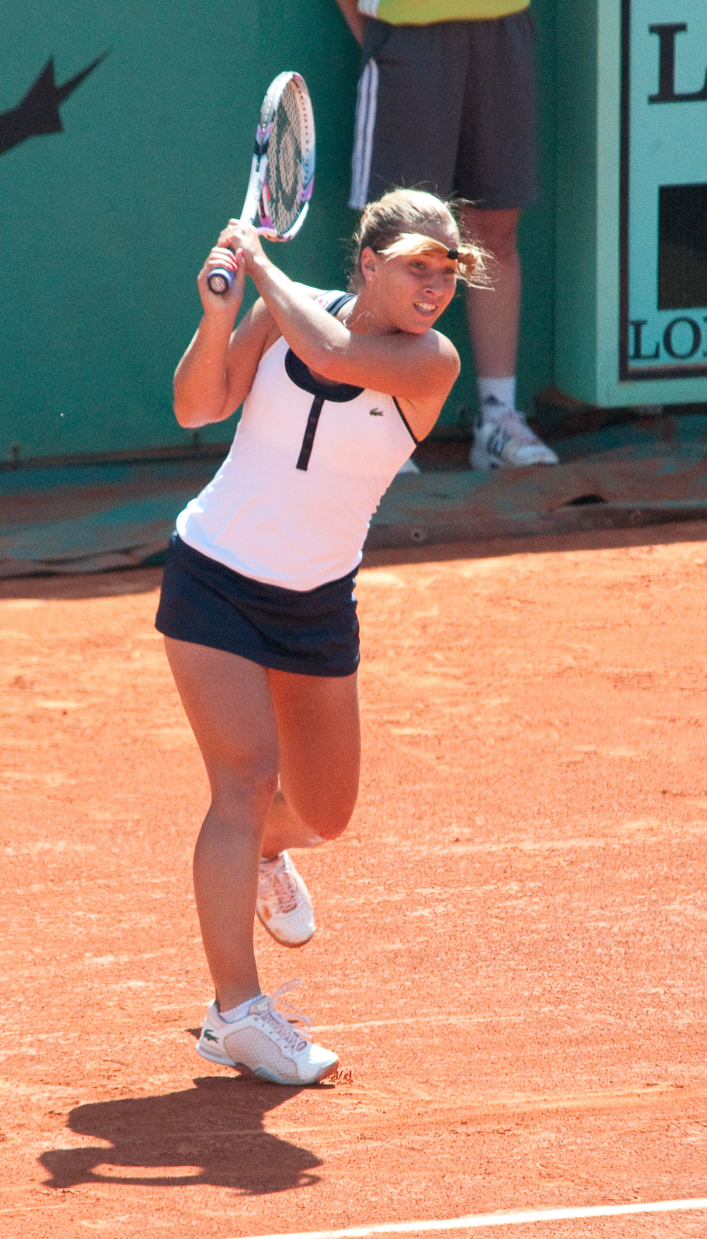 Dominika Cibulková at 2009 Roland Garros, Paris, France